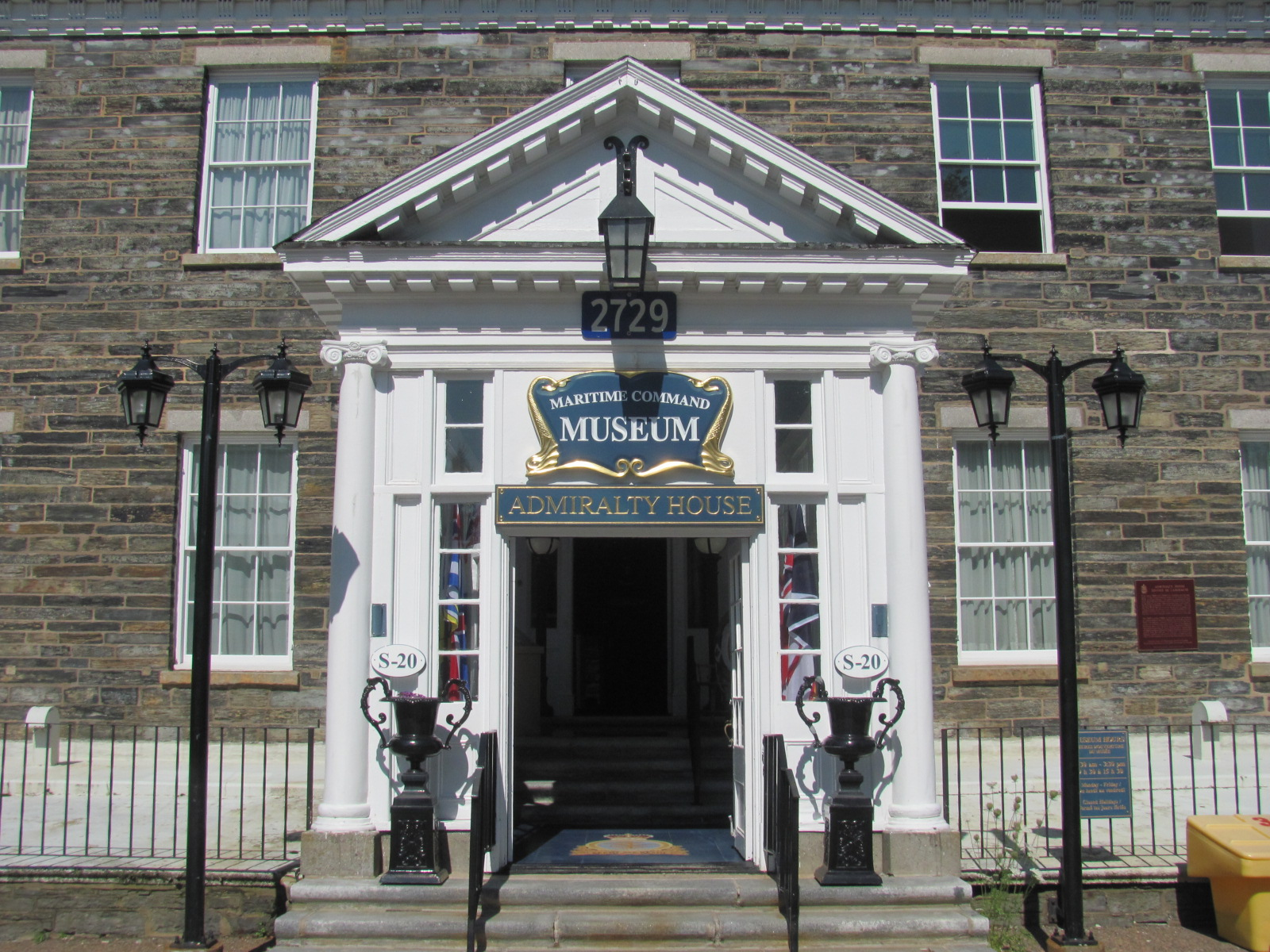 Entrance to the Maritime Command Museum, Halifax, Nova Scotia